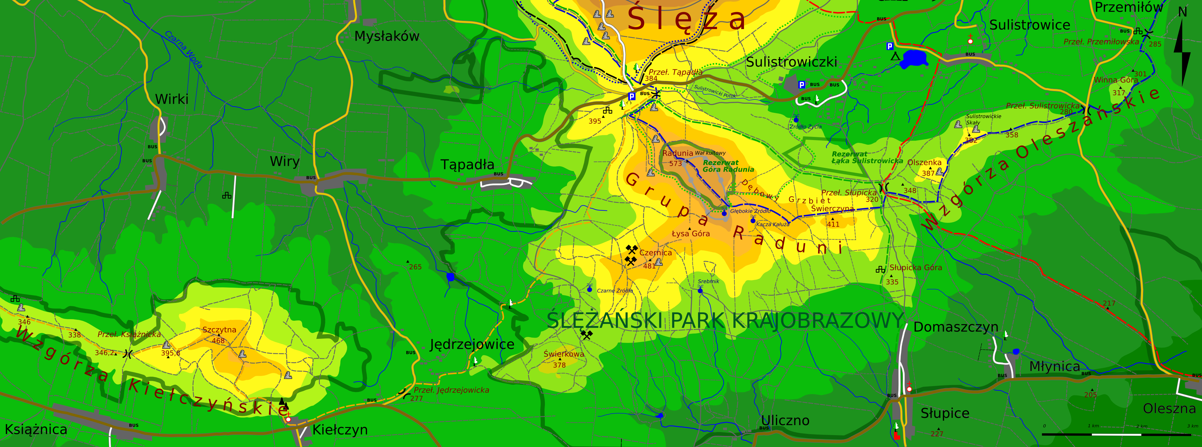 Southern part